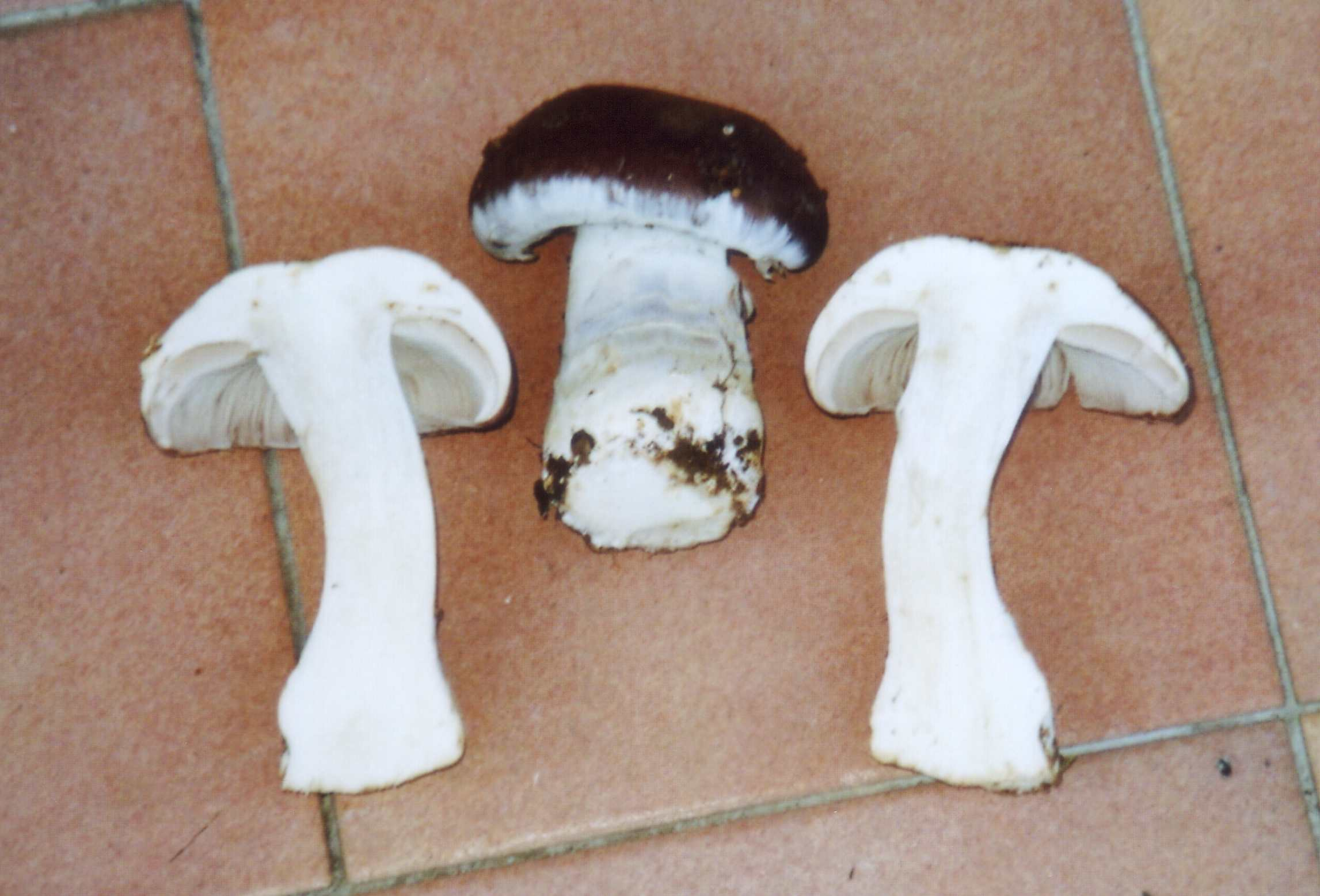 Goliath Webcap in Javerlhac-et-la-Chapelle-Saint-Robert